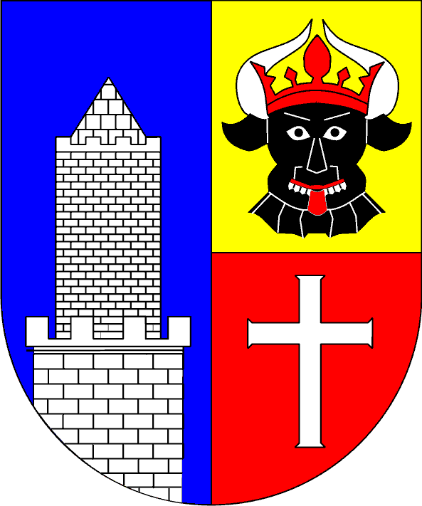 coats of arms of the state of Mecklenburg-Strelitz; 1: territory of Stargard; 2: duchy of Mecklenburg; principality of Ratzeburg